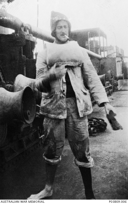 Warrant Officer Peter Victor Waddell standing on the deck of the Polish steamer Narvick, which rescued him and seven other Australian sergeant pilots after the Orcades was torpedoed. WO Waddell later served with 249 Squadron, RAF and was later lost on operations on 30 March 1944 over Albania.